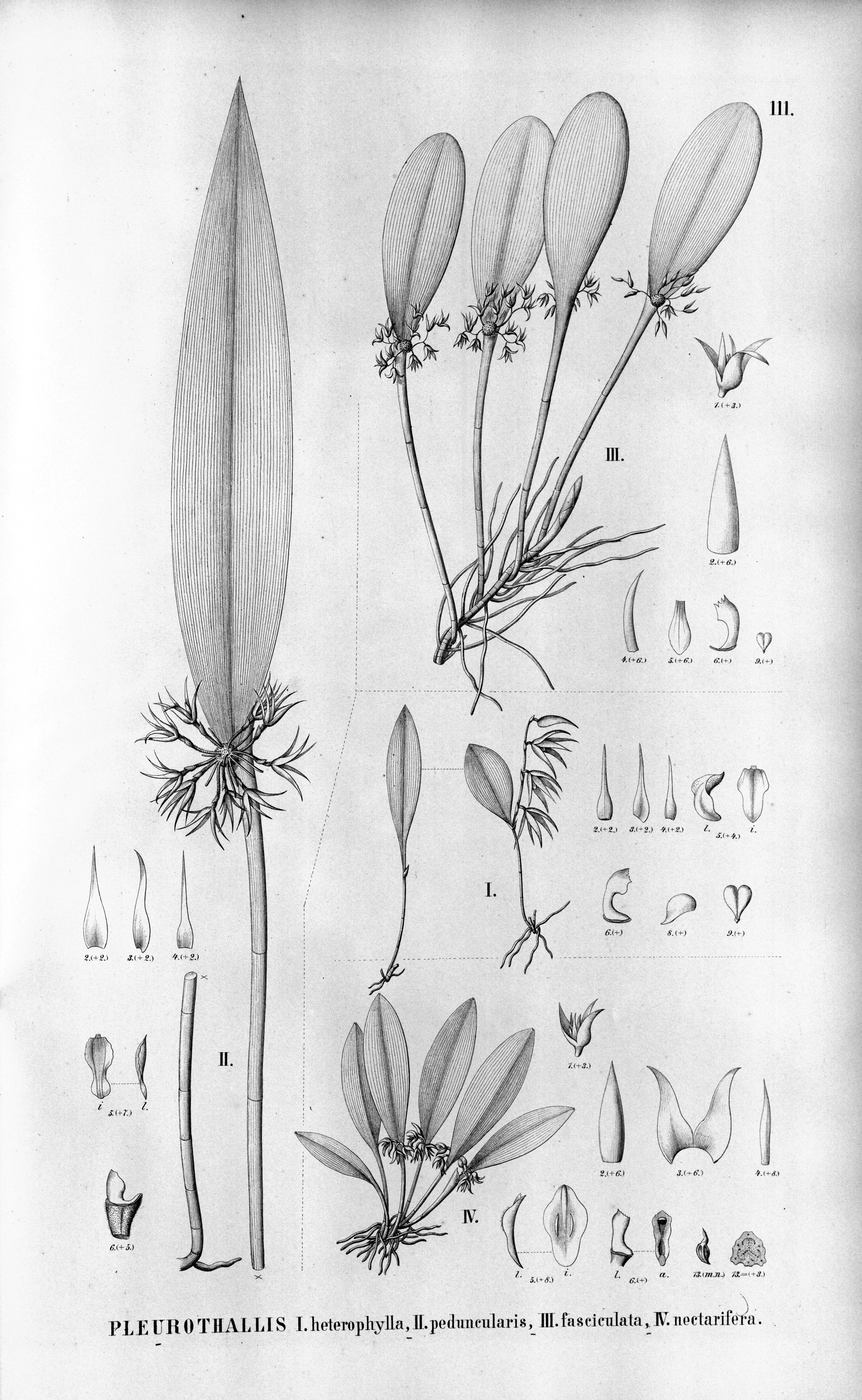 Illustration of I. Anathallis liparanges (as syn. Pleurothallis heterophylla) II. Myoxanthus exasperatus (as syn. Pleurothallis peduncularis) III. Anathallis obovata (as syn. Pleurothallis fasciculata) IV. Anathallis nectarifera (as syn. Pleurothallis nectarifera)